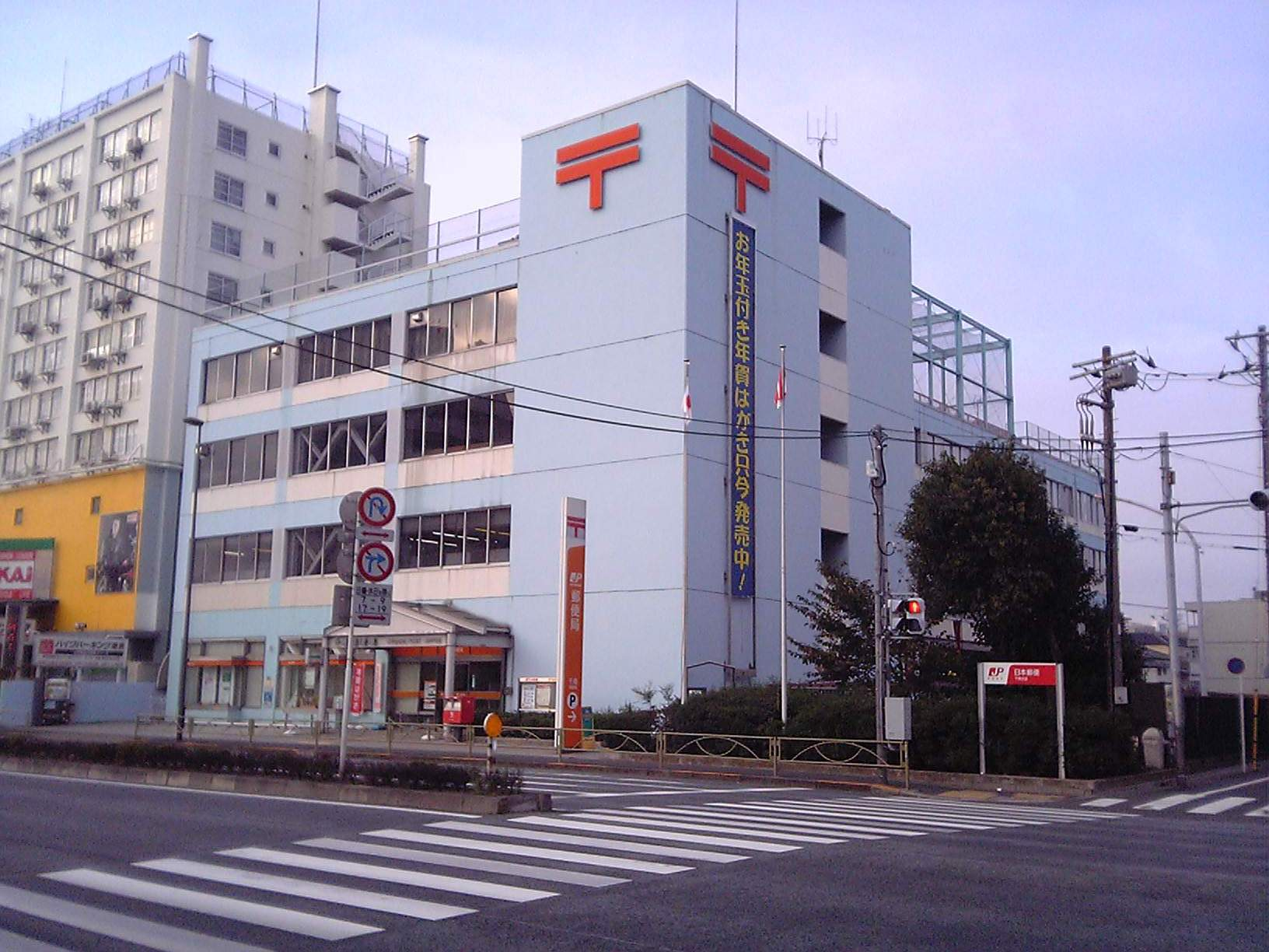 Chidori Post Office